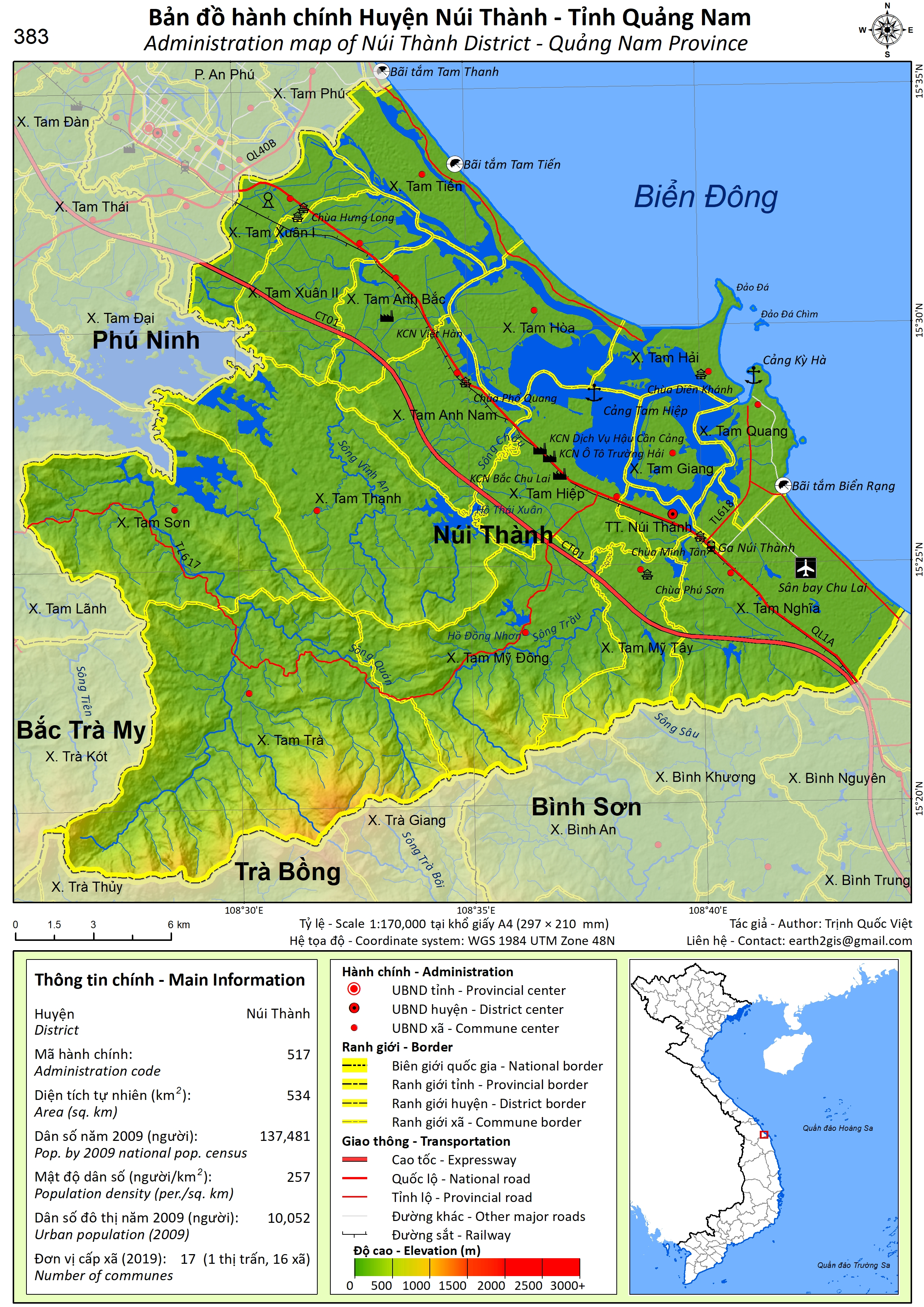 Administration map of Nui Thanh District, Quangnam Province